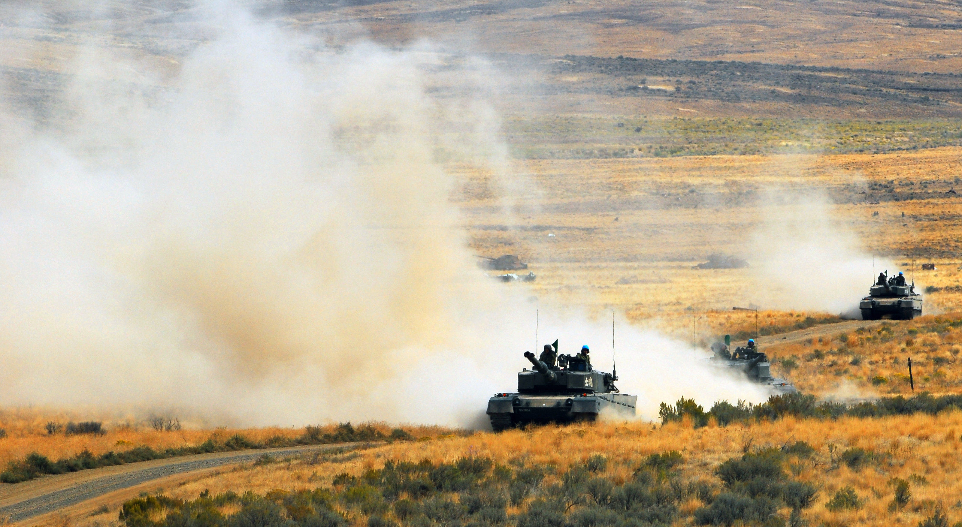 Japanese Type 90 Tanks roll back to their ammo point to reload during live-fire training at Yakima Training Center Sept. 15. The Japanese tankers trained at YTC throughout September during the annual Exercise Rising Thunder.